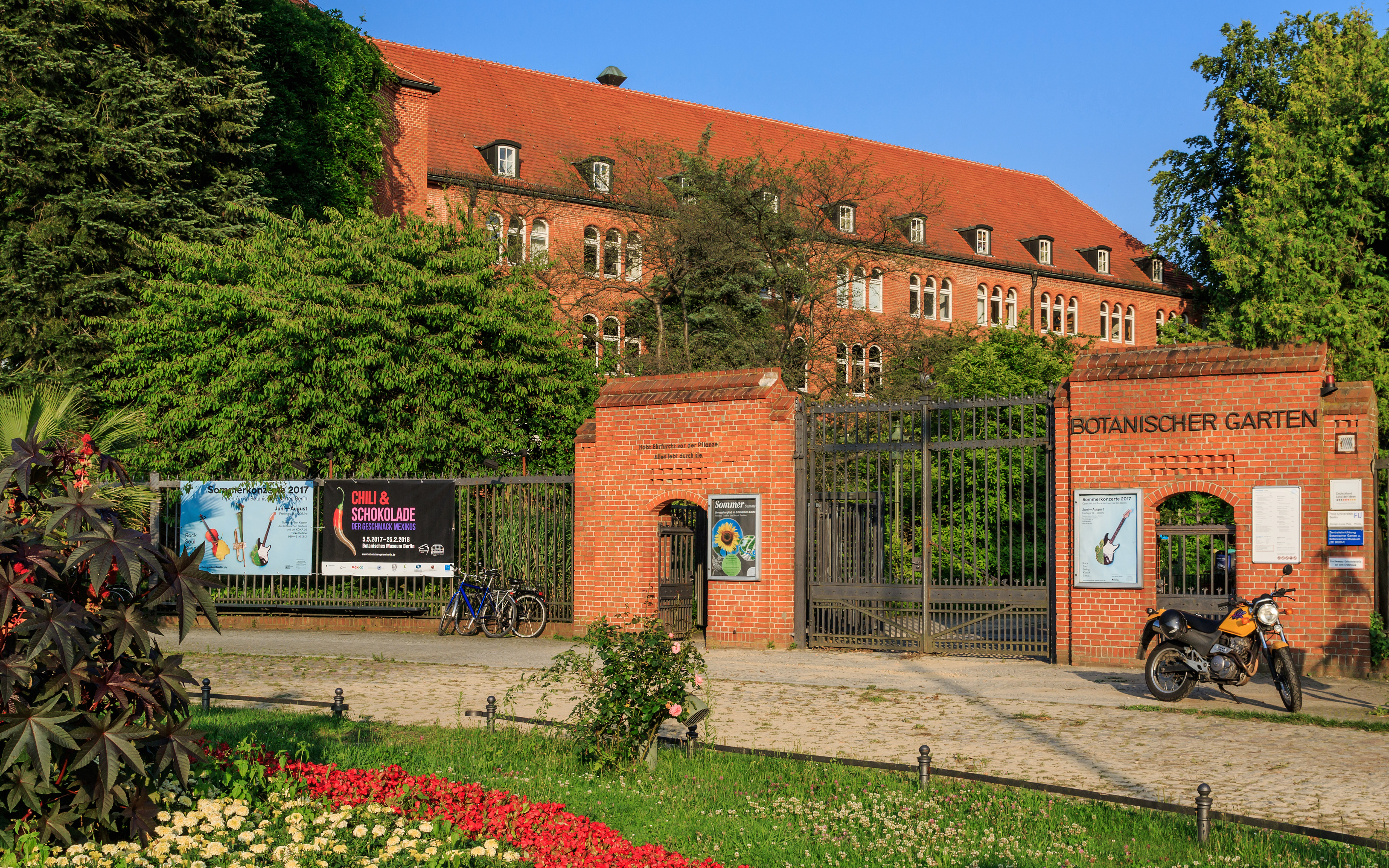 Dahlem Botanical Garden main entrance in Berlin (Germany)